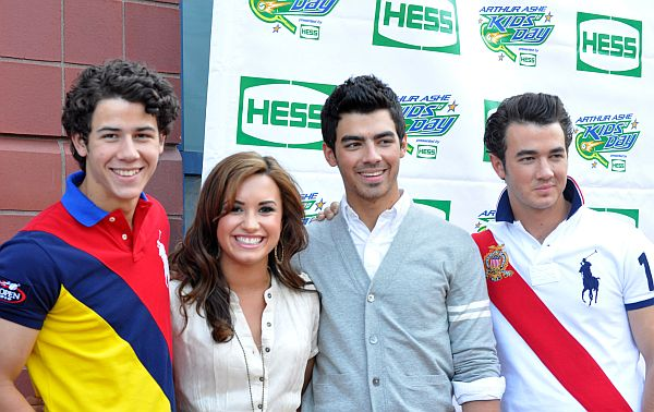 Musicians Nick Jonas, Demi Lovato, Joe Jonas and Kevin Jonas attend 15th Annual Arthur Ashe Kids Day on August 28, 2010 at Billie Jean King Stadium in Queens, New York.